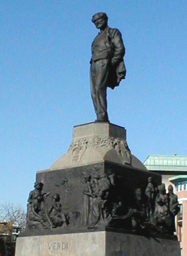 The statue of Giuseppe Verdi in Milan, in the Piazza Michelangelo Buonarroti, made in 1913 by Enrico Butti.